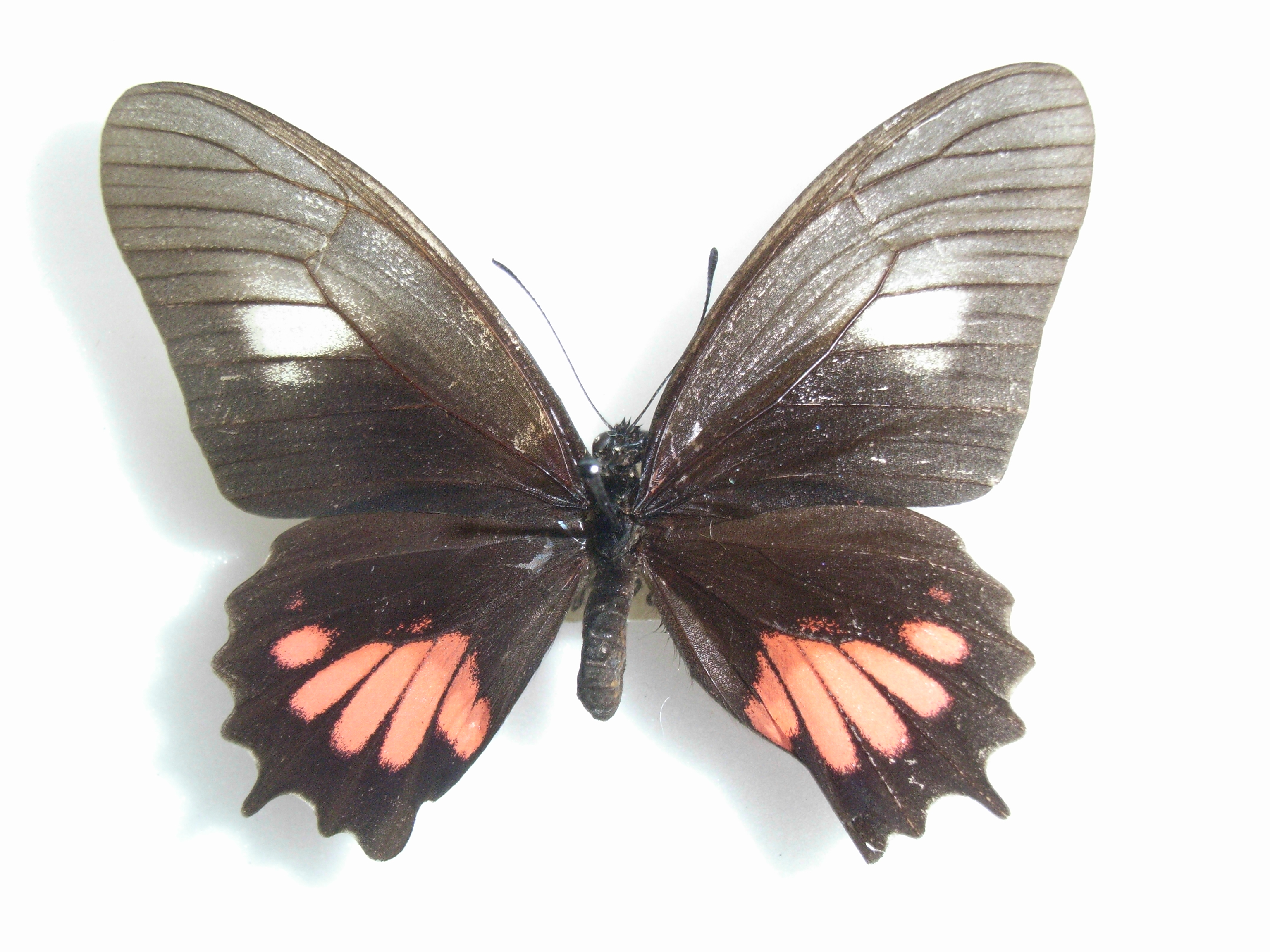 Mimoides ariarathes (Esper,1788) Female.